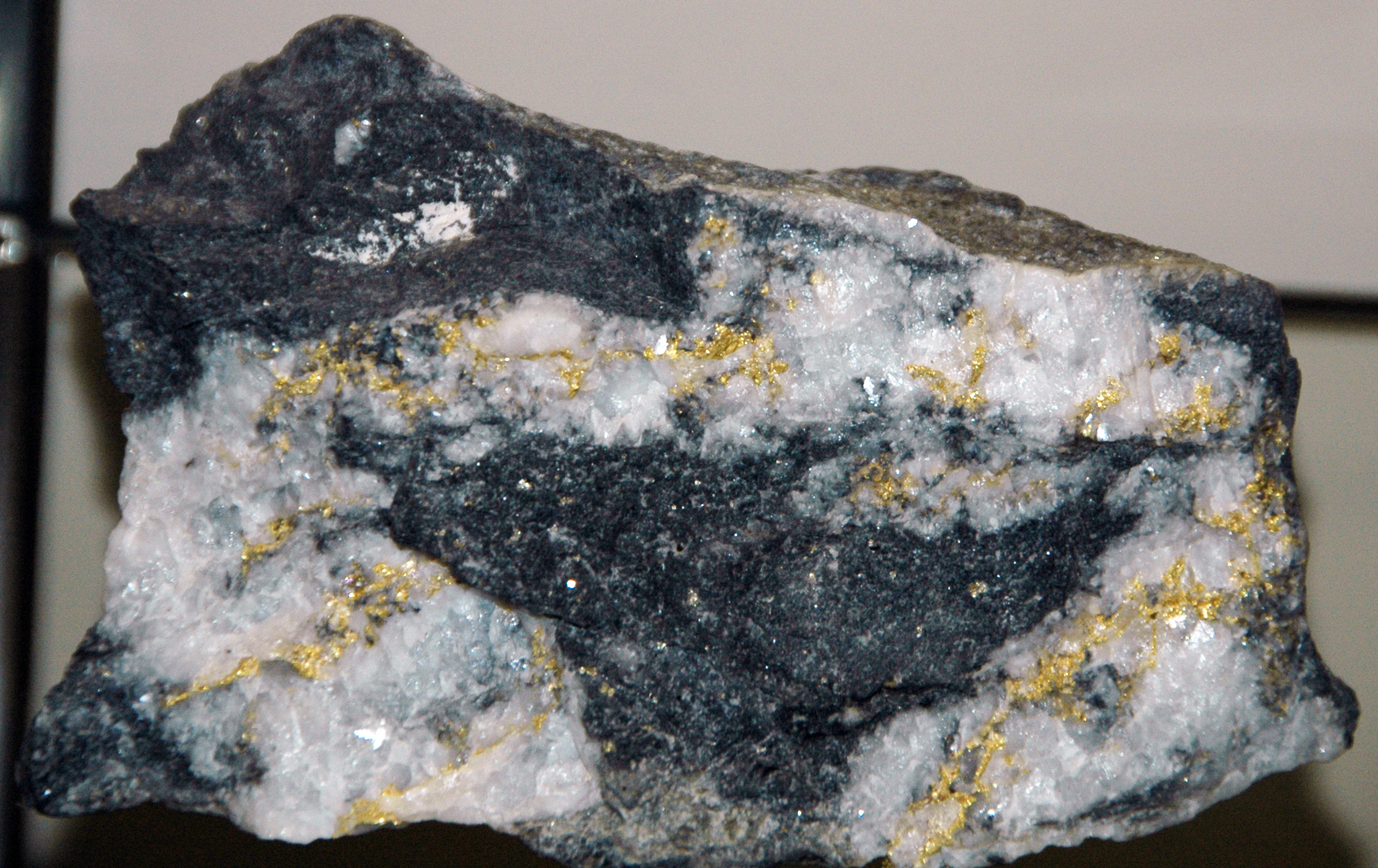 Gold-quartz hydrothermal vein in matrix from California, USA. (public display, Leadville Mining Museum, Leadville, Colorado, USA) This is a gold ore sample from California's Mother Lode Gold Belt. The whitish-gray material is quartz (SiO2 - silicon dioxide). The metallic yellowish material is native gold (Au). The blackish-colored material is the vein-hosting rock. Locality: Amador County, California, USA